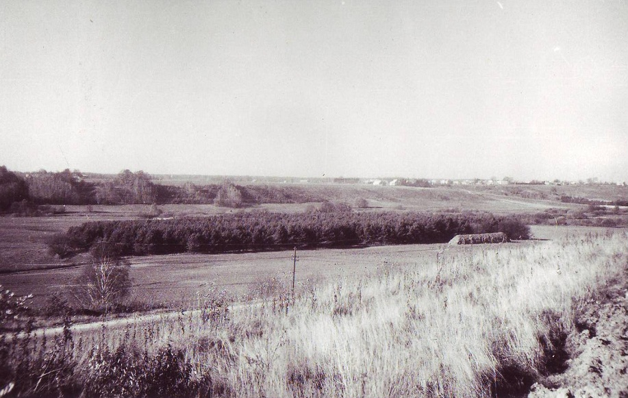 Kalno Grikštai, Kretinga district, Lithuania